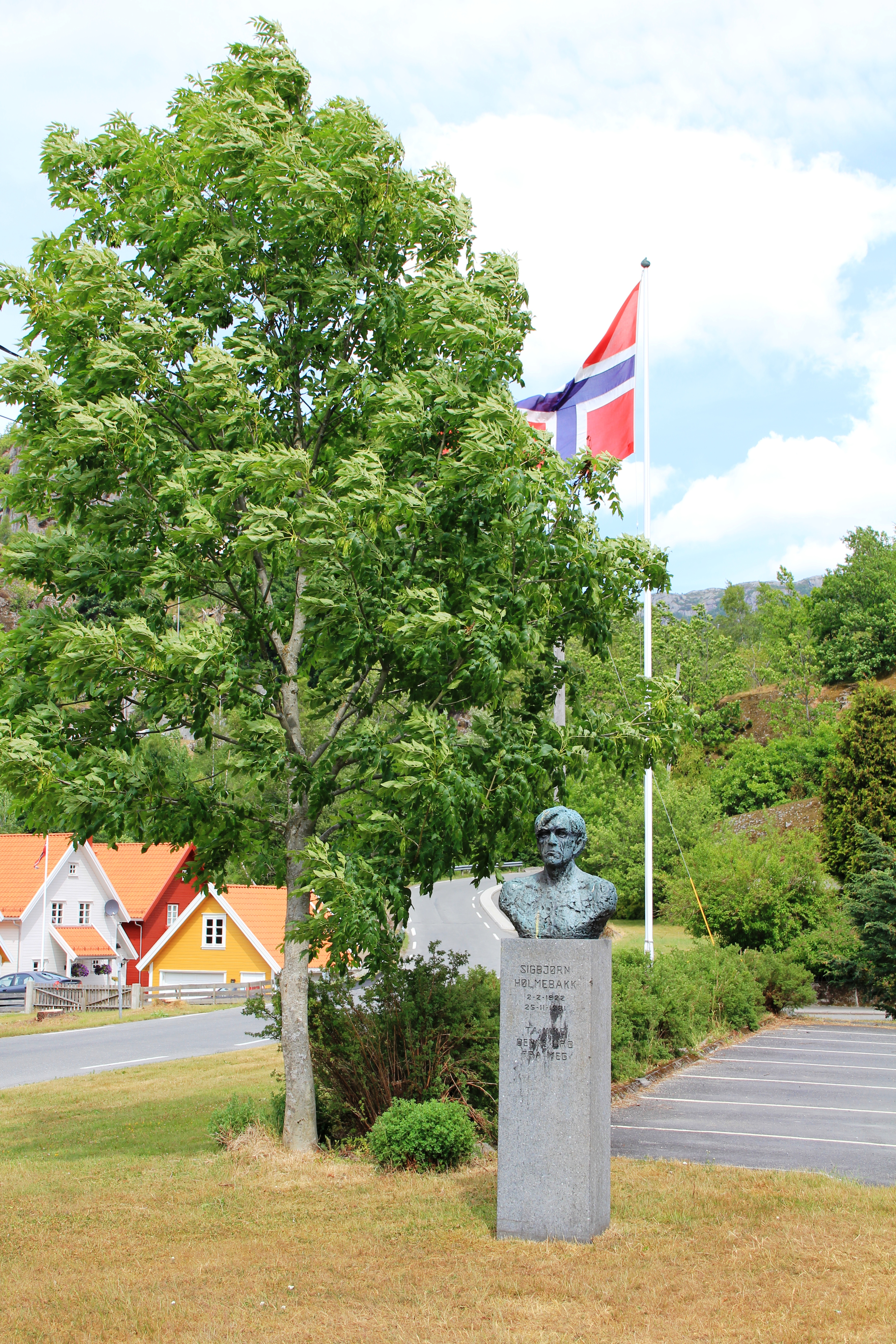 Area by Feda skole (Elementary School), with bust of Norwegian writer Sigbjørn Hølmebakk. Feda, Kvinesdal.